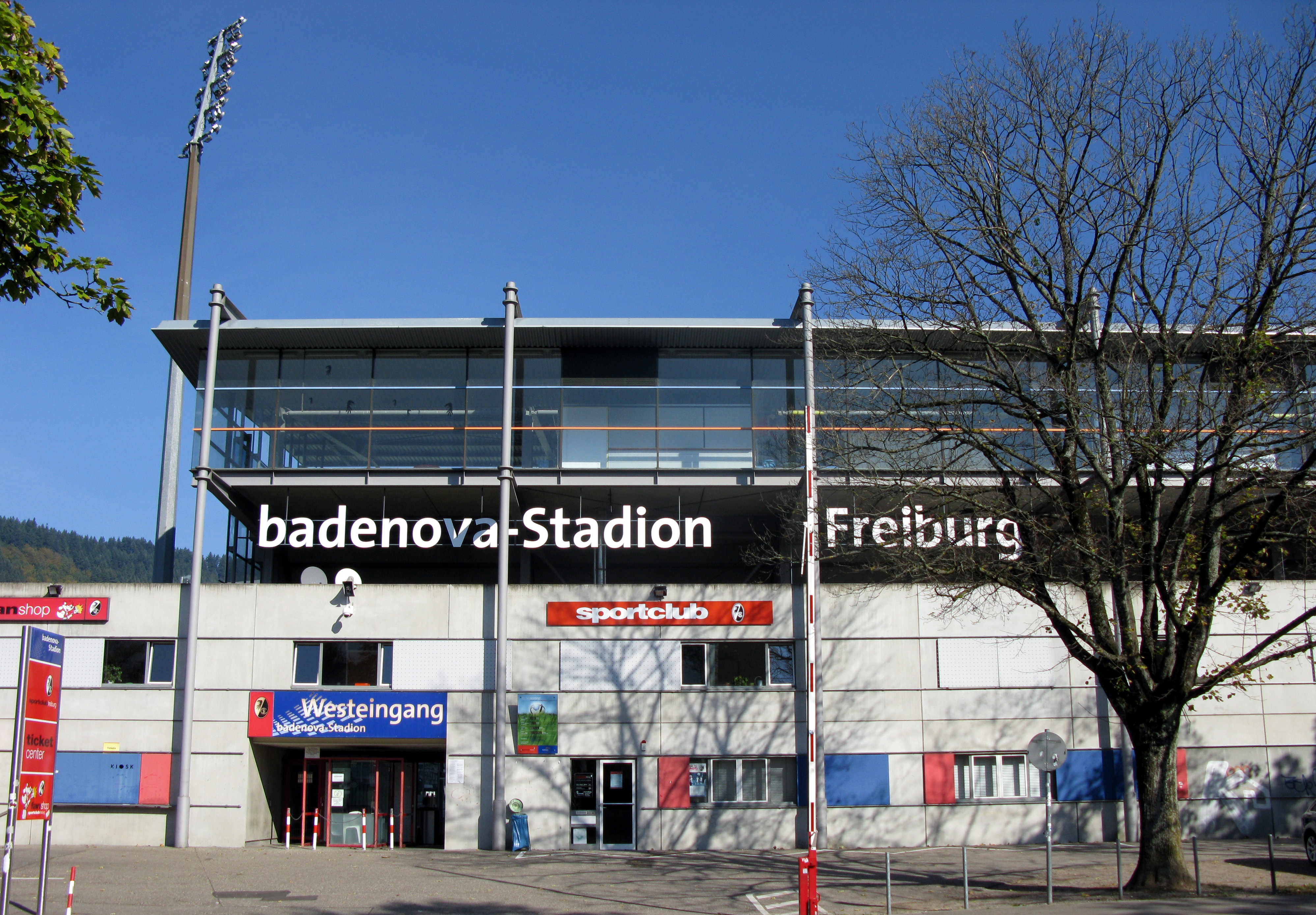 Badenova stadium Freiburg, west entrance